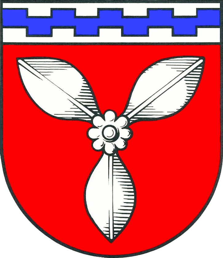 Coat of arms of the municipality Ascheberg (Holstein) in Schleswig-Holstein, Germany.